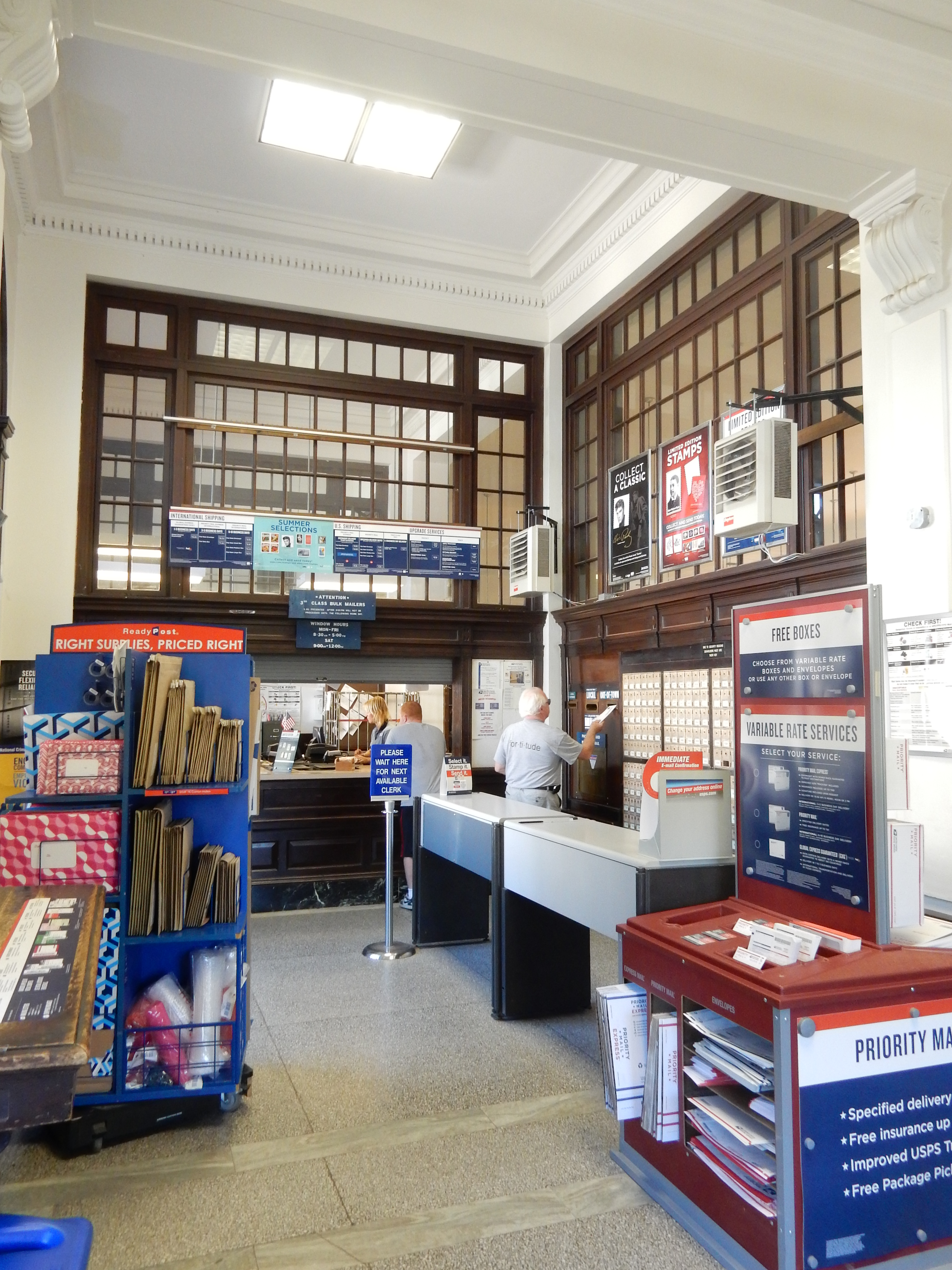 US Post Office-Penn Yan is a historic post office building located at Penn Yan in Yates County, New York. View of interior.